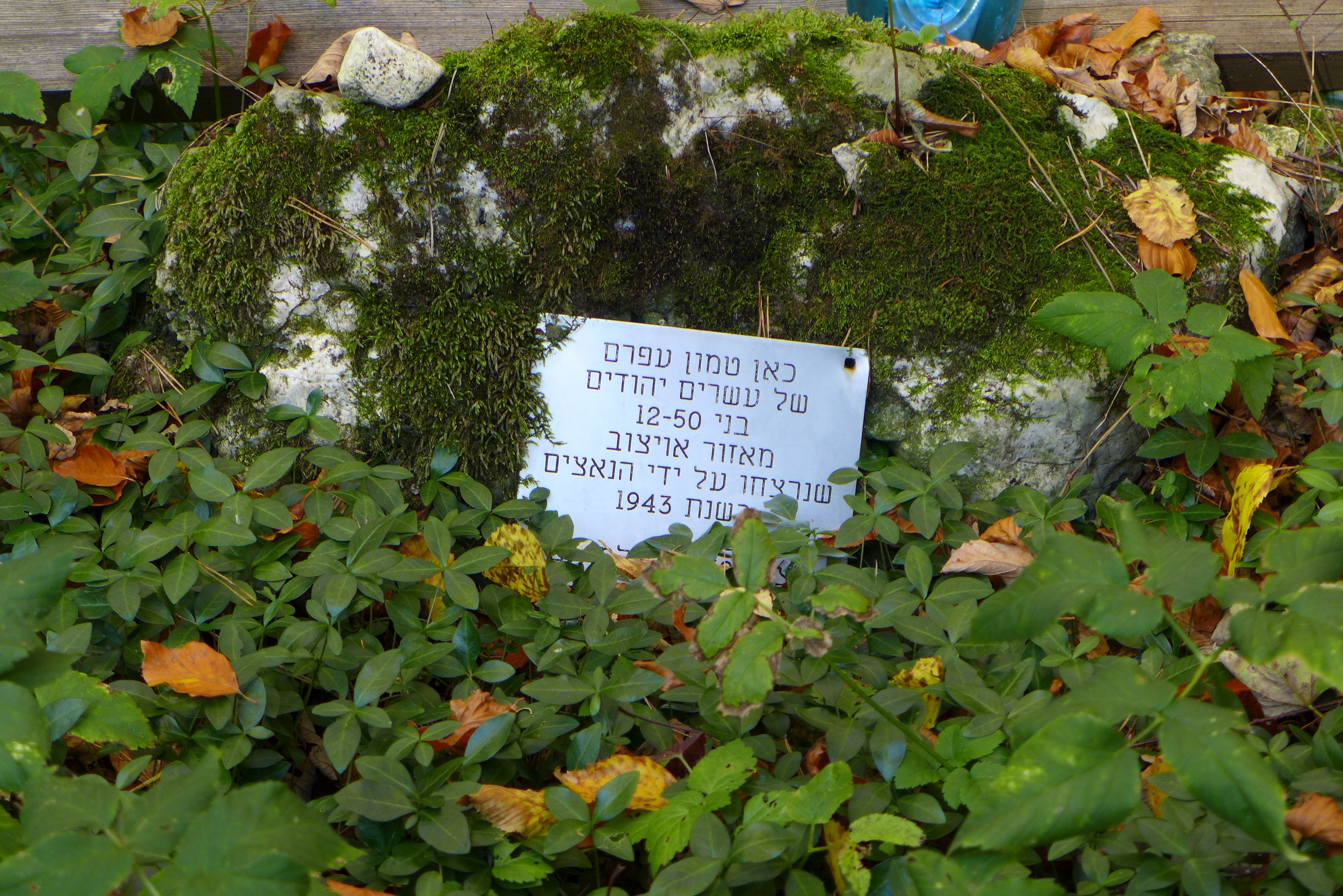 A mass grave of Jews executed by the Germans in 1943 (World War II) located in the Sąspów Valley in Ojców in the Ojcowski National Park near Cracow in Poland.